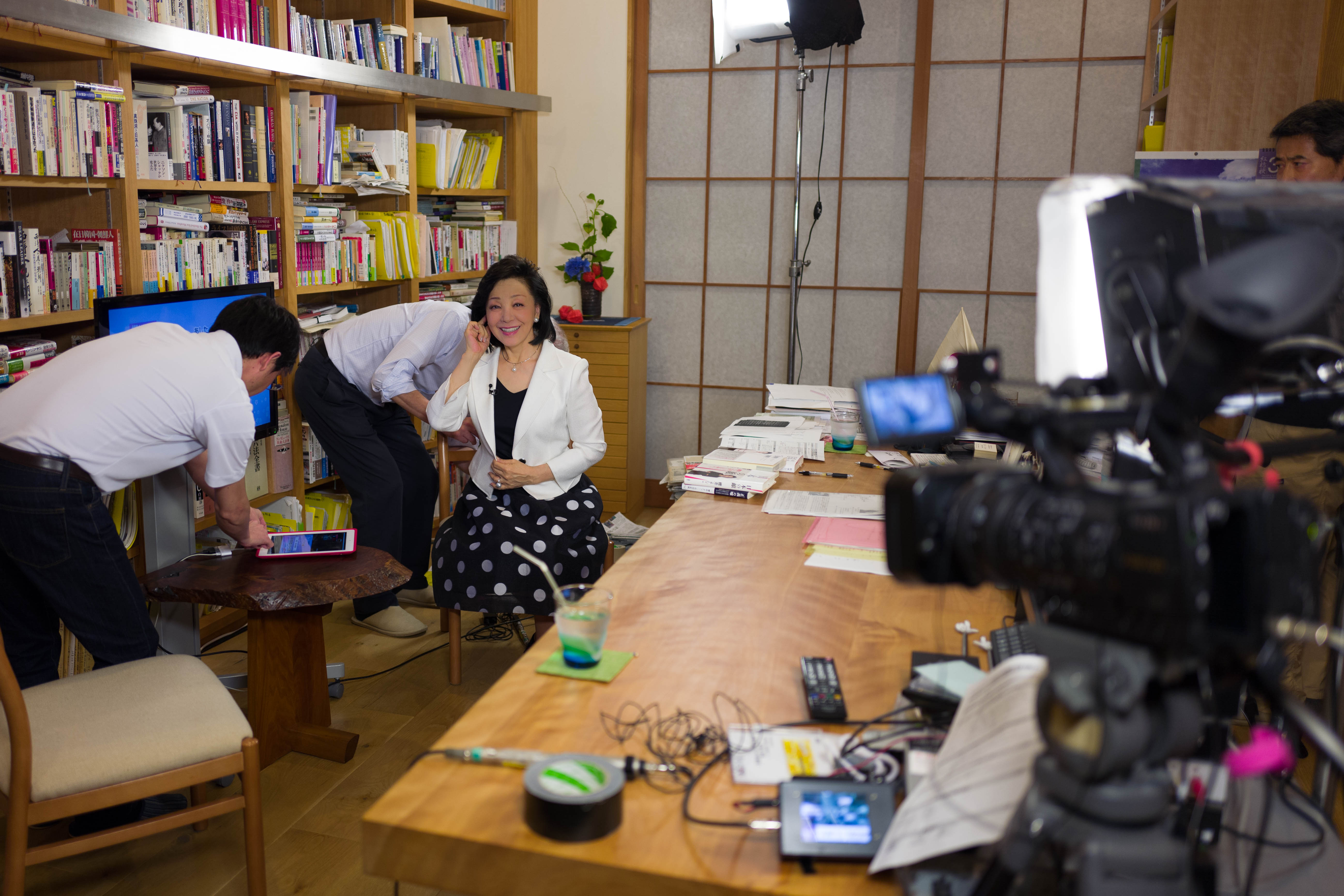 Yoshiko Sakurai, President of the Japan Institute for National Fundamentals, prepared for the Sakura LIVE on July 10, 2015.